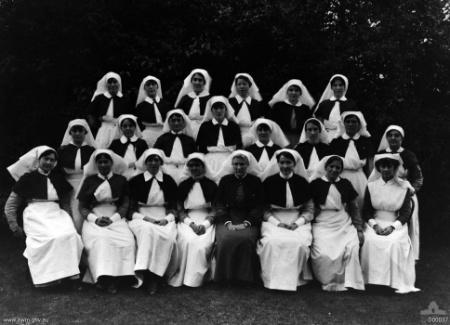 Group portrait of nursing sisters at No. 1 Australian Auxiliary Hospital. Reading from left to right, front row; Sisters Kelly, Eleanor Mary Judd, King, Head Sister Carpenter, Matron Clara Louisa Ross RRC, Janet Sorley, Benson, Walker (behind masseuse), Masseuse Josephine Jennings, Mason, E M Wilson, Stafford, McNicol, R Wilson, Toft, Pearl Elizabeth Corkhill MM RRC, Alma Dowe (no Dow on Nominal Roll), Shute, Canny, Jackson, Jeffreys, Wood, and Taylor. Note: Names doubtful as key description identifies Sister Taylor in back row, after Wood while photograph shows twenty two in group only. Sister Judd wears a rare round enamelled AIF badge called the Australian Army Nursing Service (1916) badge. Comment : This is believed to be at Harefield, England.